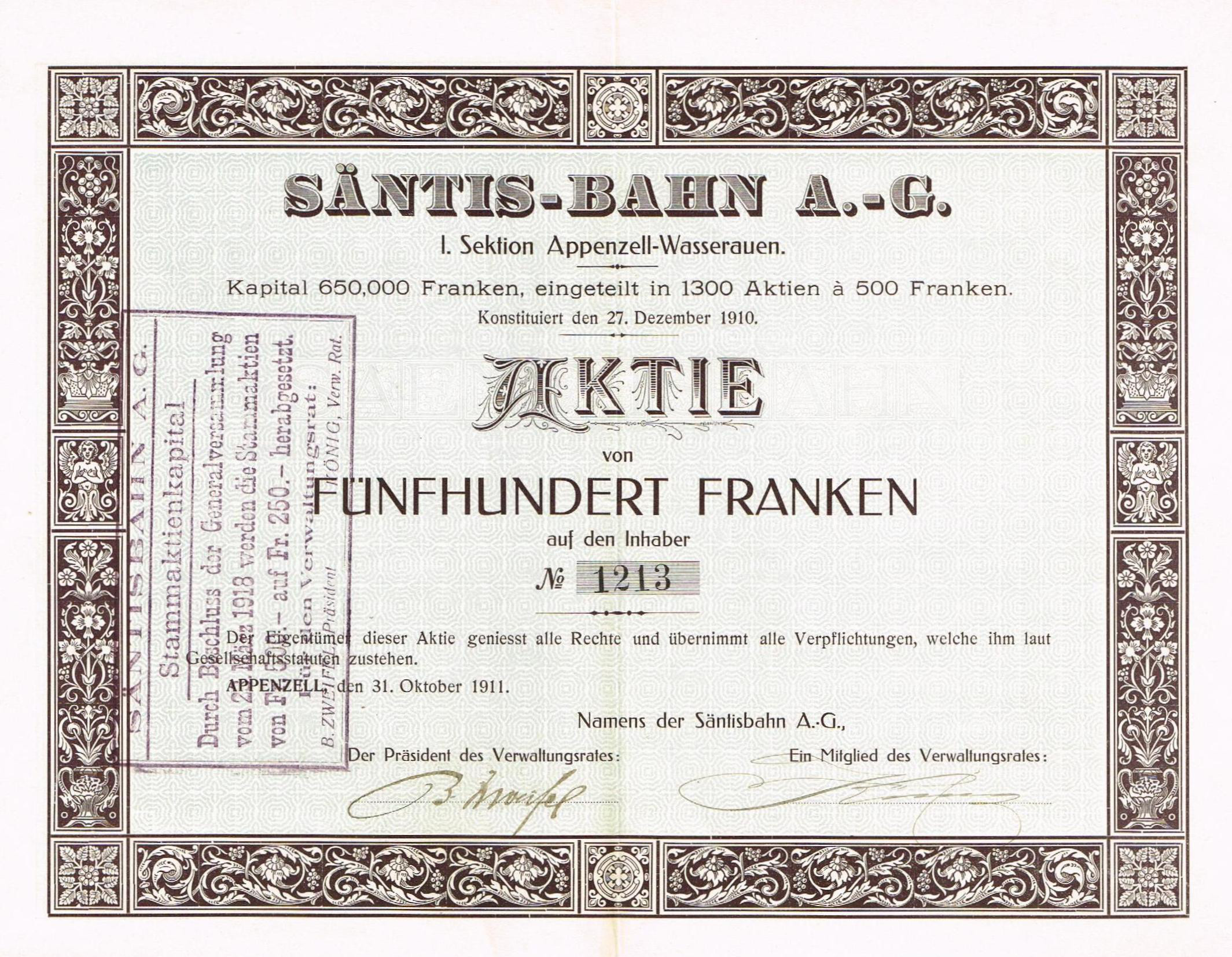 Share of the Säntisbahn AG, issued 31. October 1911